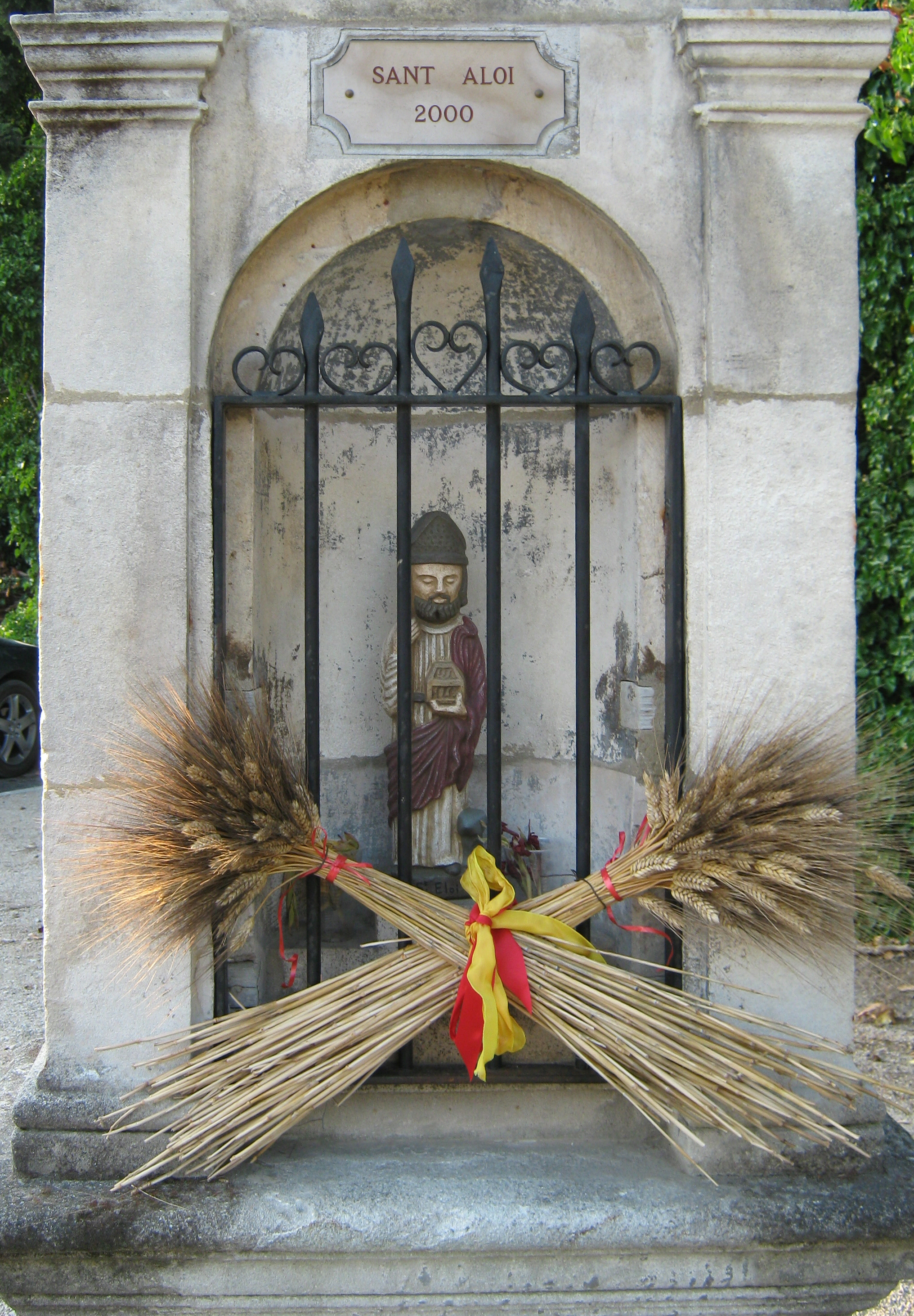 Sant Eloi statue in St-Etienne-du-Grès (13103)